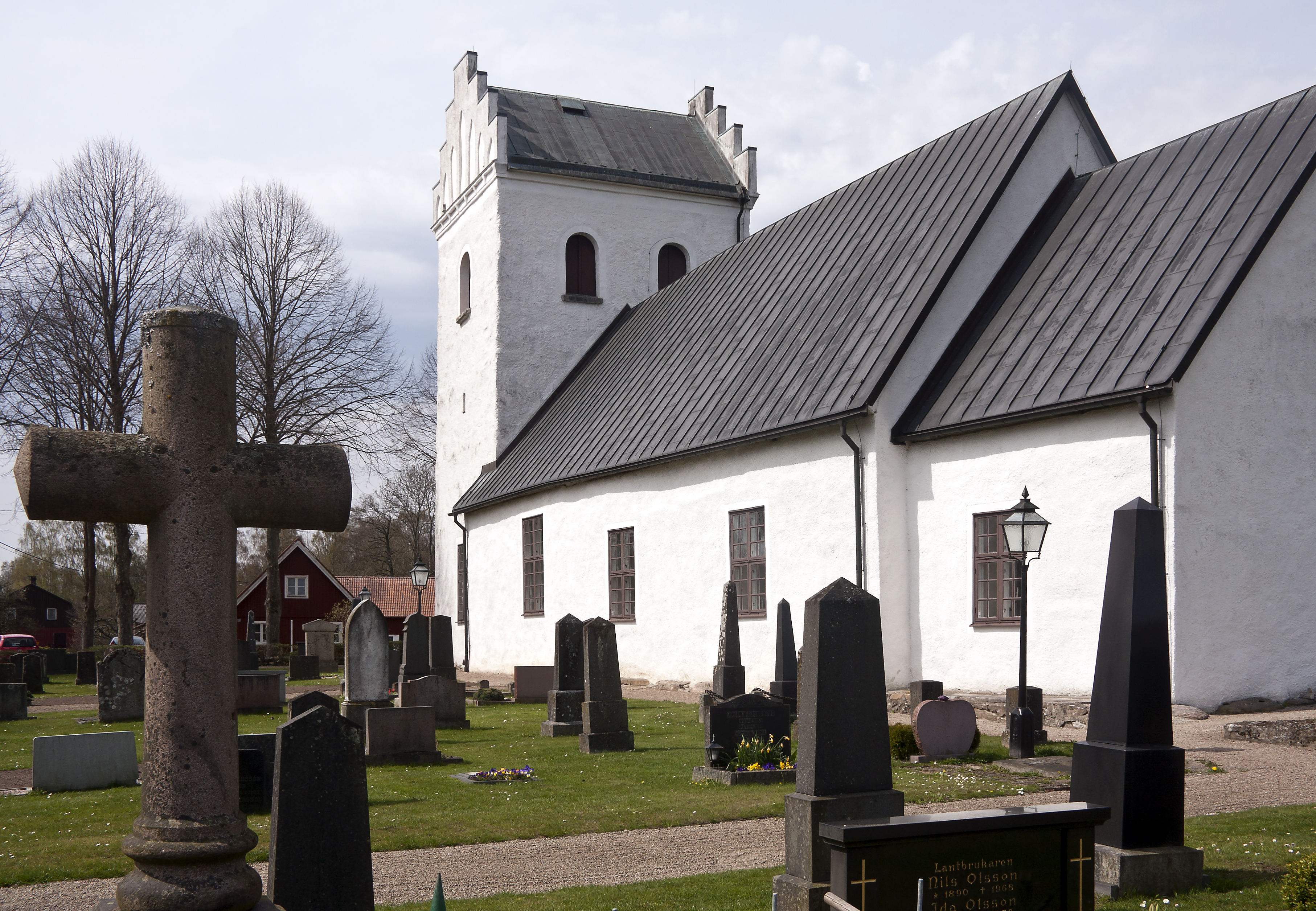 Djurröd Church, Träne-Djurröd Parish, Diocese of Lund, Church of Sweden.